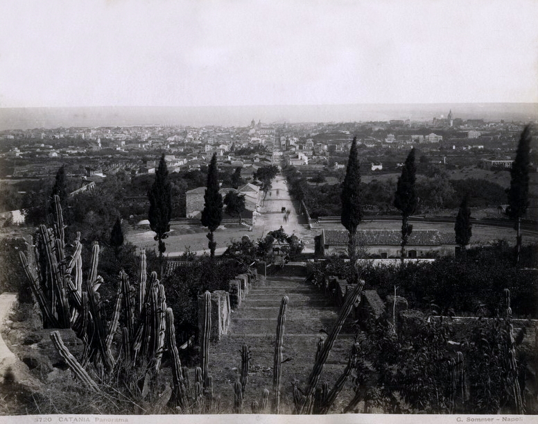 Giorgio Sommer (1834-1914), "Catania - Panorama". Catalogue # 8720.